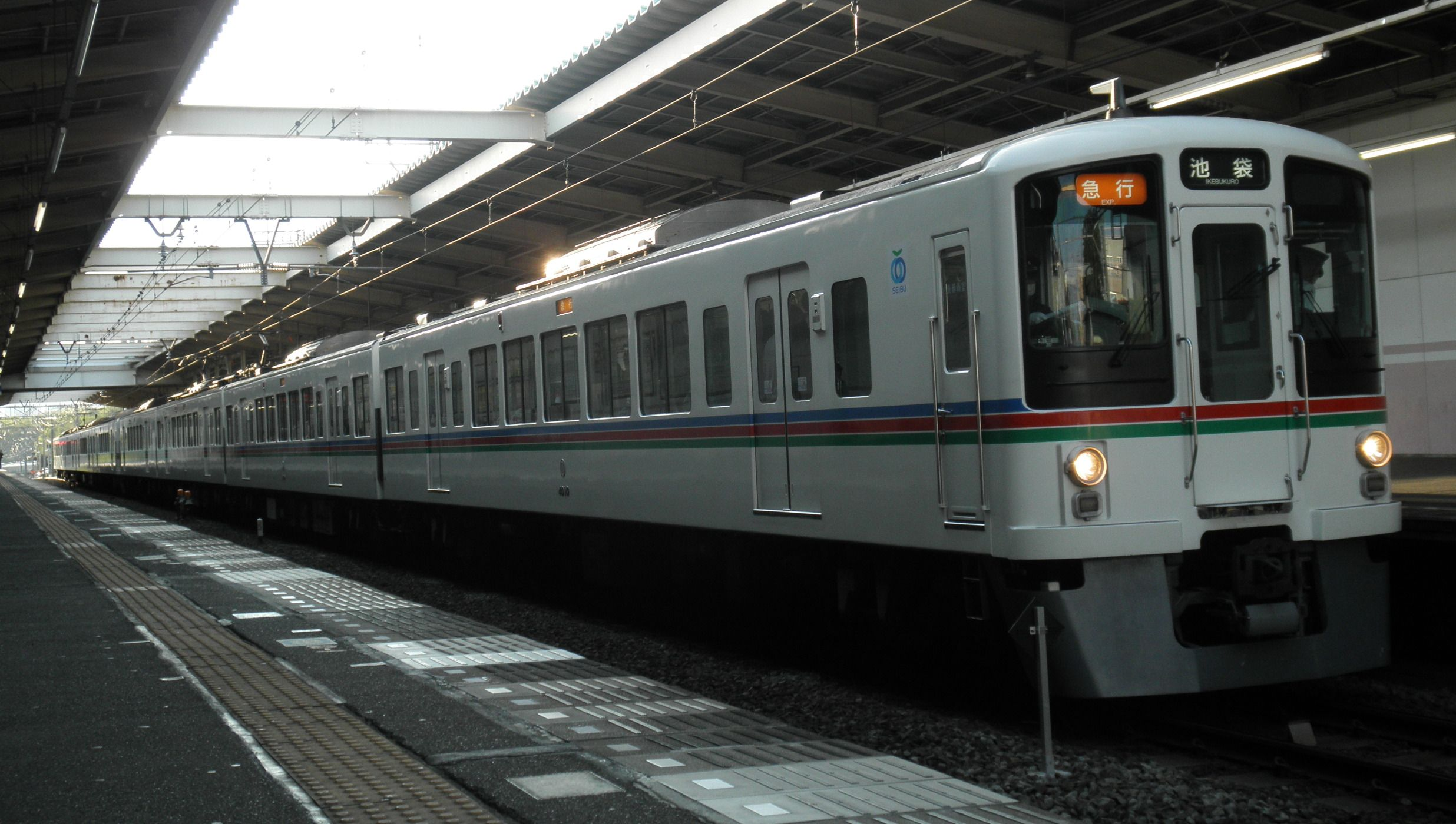 A pair of Seibu 4000 series EMUs at Akitsu Station